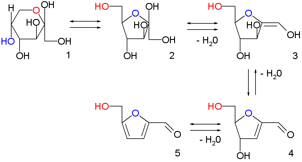 New hydroxymethylfurfural Synthesis